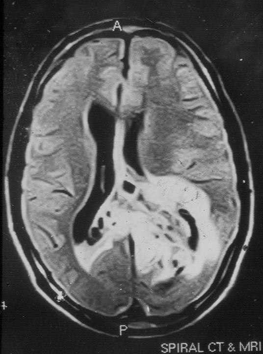 Non-contrast magnetic resonance imaging showing hyper-intense lesion involving the left temporal and parieto-occipital regions. The tumor is crossing the midline to the right parietal region.